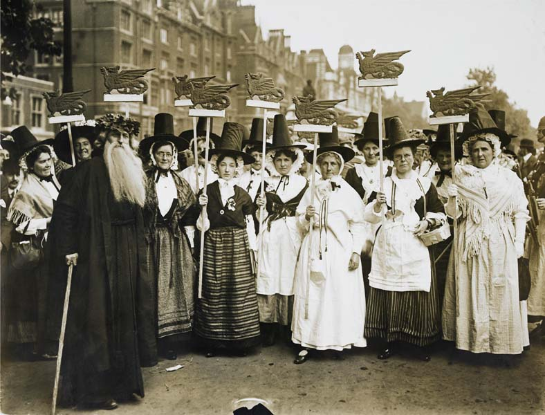 Welsh Suffragists in national costume taking part in the Women's Coronation Procession, 17 June 1911.